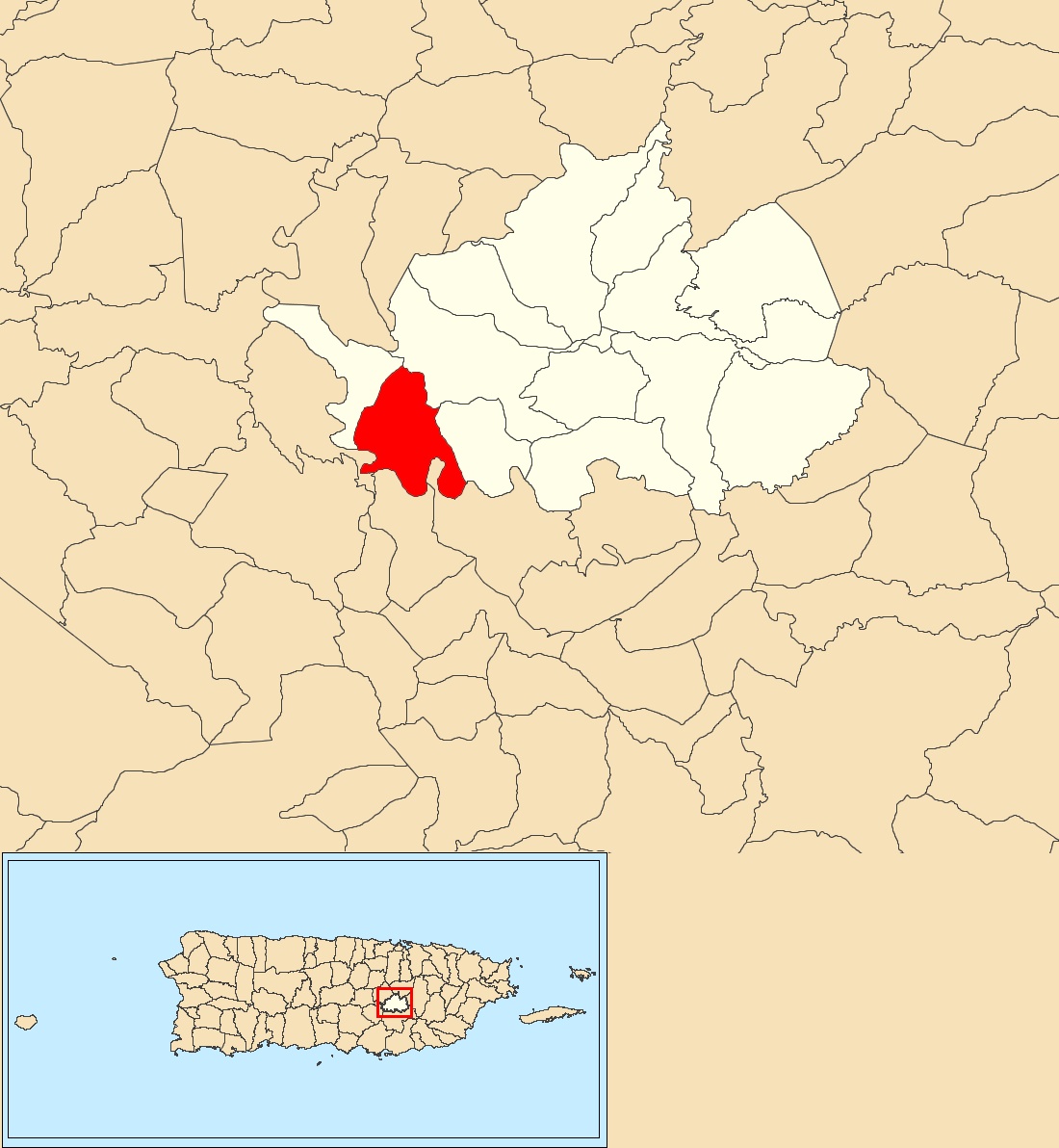 Honduras, Cidra, Puerto Rico locator map